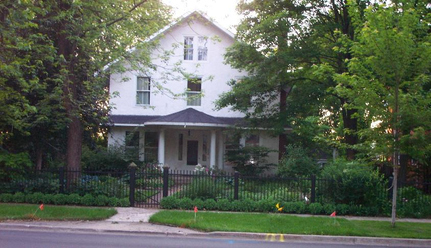 This was the home of Revrend Orange Lyman, constructed in 1839 and the oldest known home in Downers Grove, Illinois. It was rumored to be a stop on the underground railroad. The home was almost the victim of a teardown in 2004.